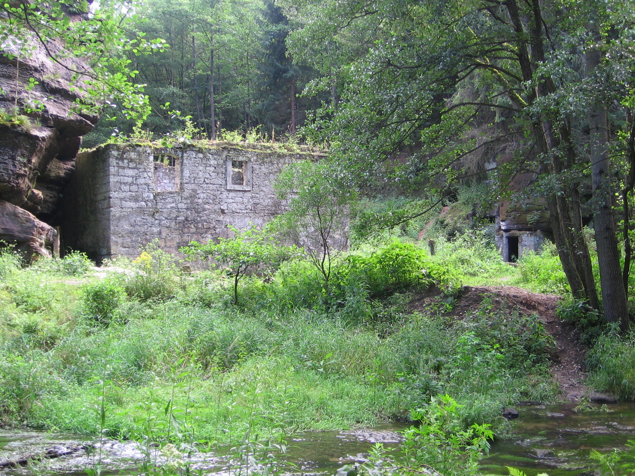 Ruins of Dolský mlýn (a historical mill at Kamenice River, Ústí nad Labem Region, Czech Republic)